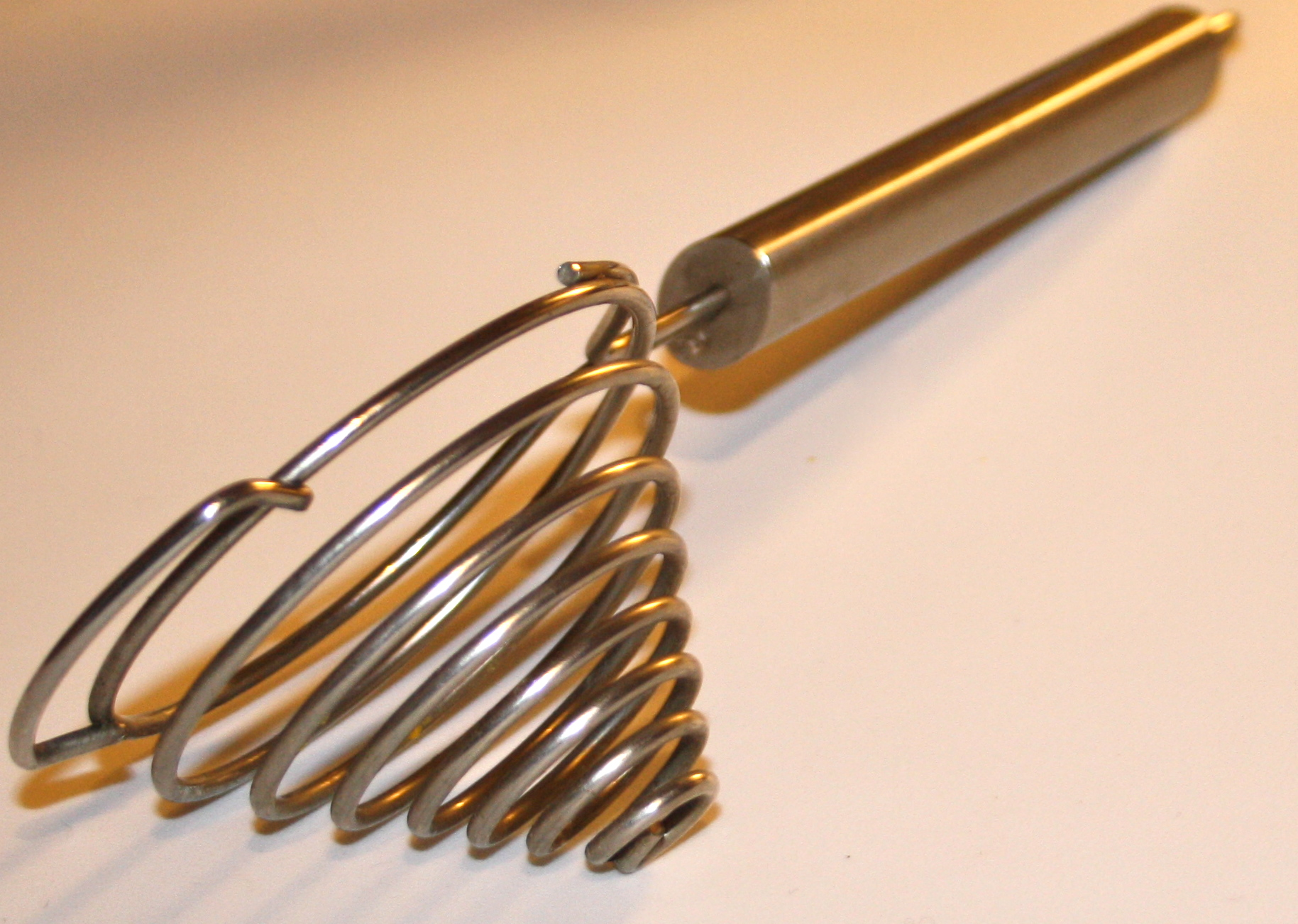 Egg separator.